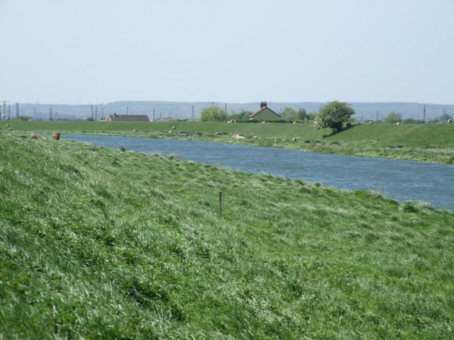 River Glen near Guthram Gowt, Lincolnshire, England